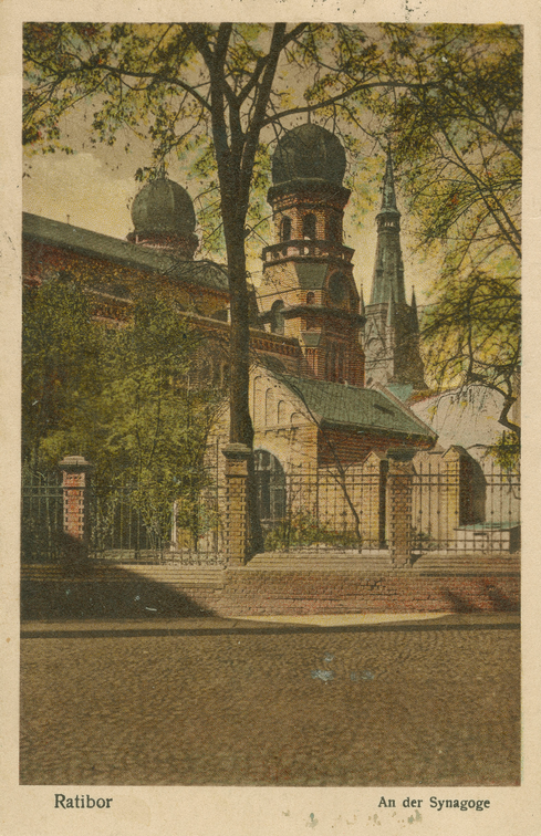 Postcard of the synagogue of Ratibor, seen from the north side - end of XIXth - beg of XXth century.